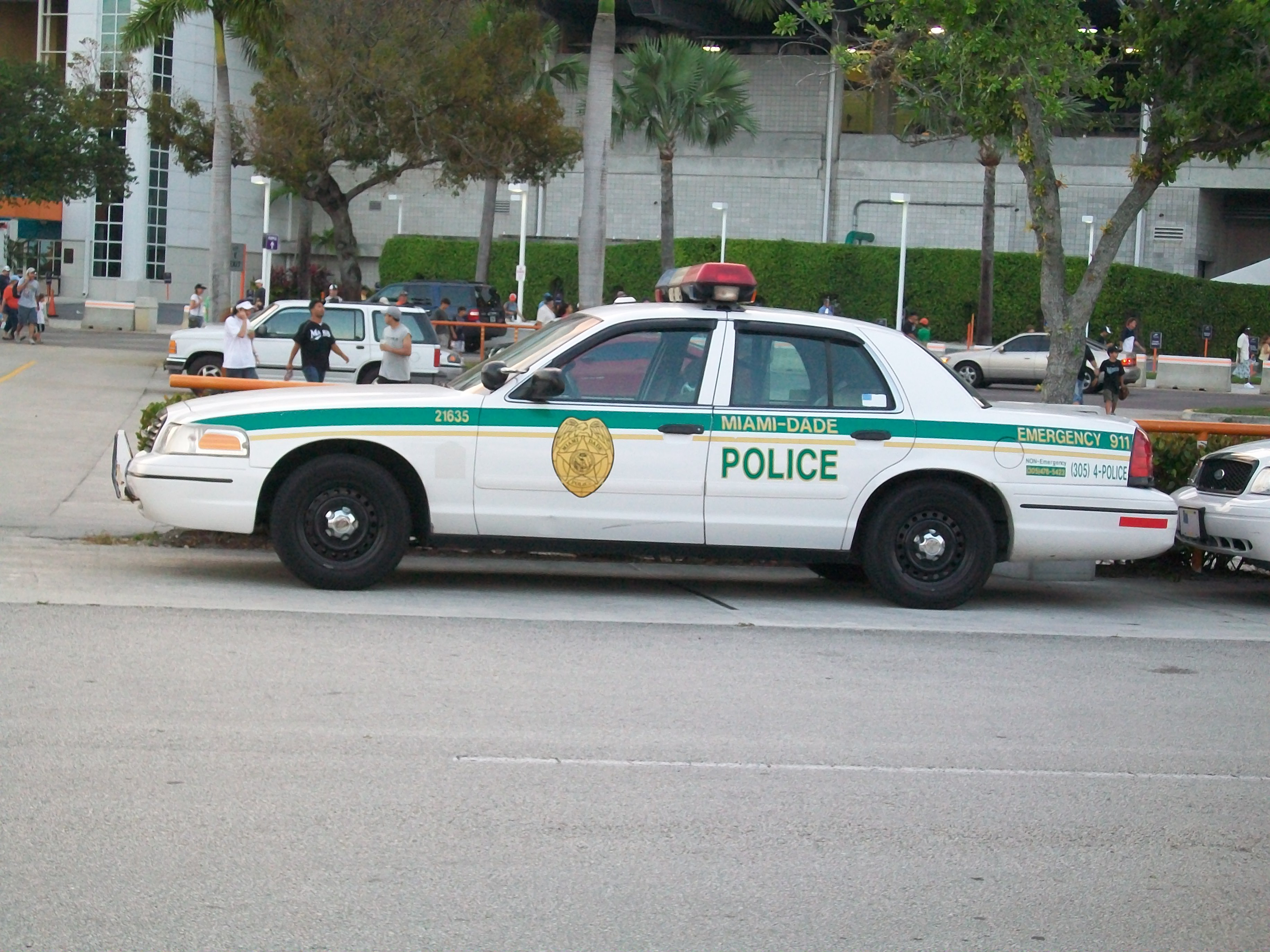 A Miami-Dade Police Department cruiser, a Ford Crown Victoria interceptor, parked outside of Sun Life Stadium.